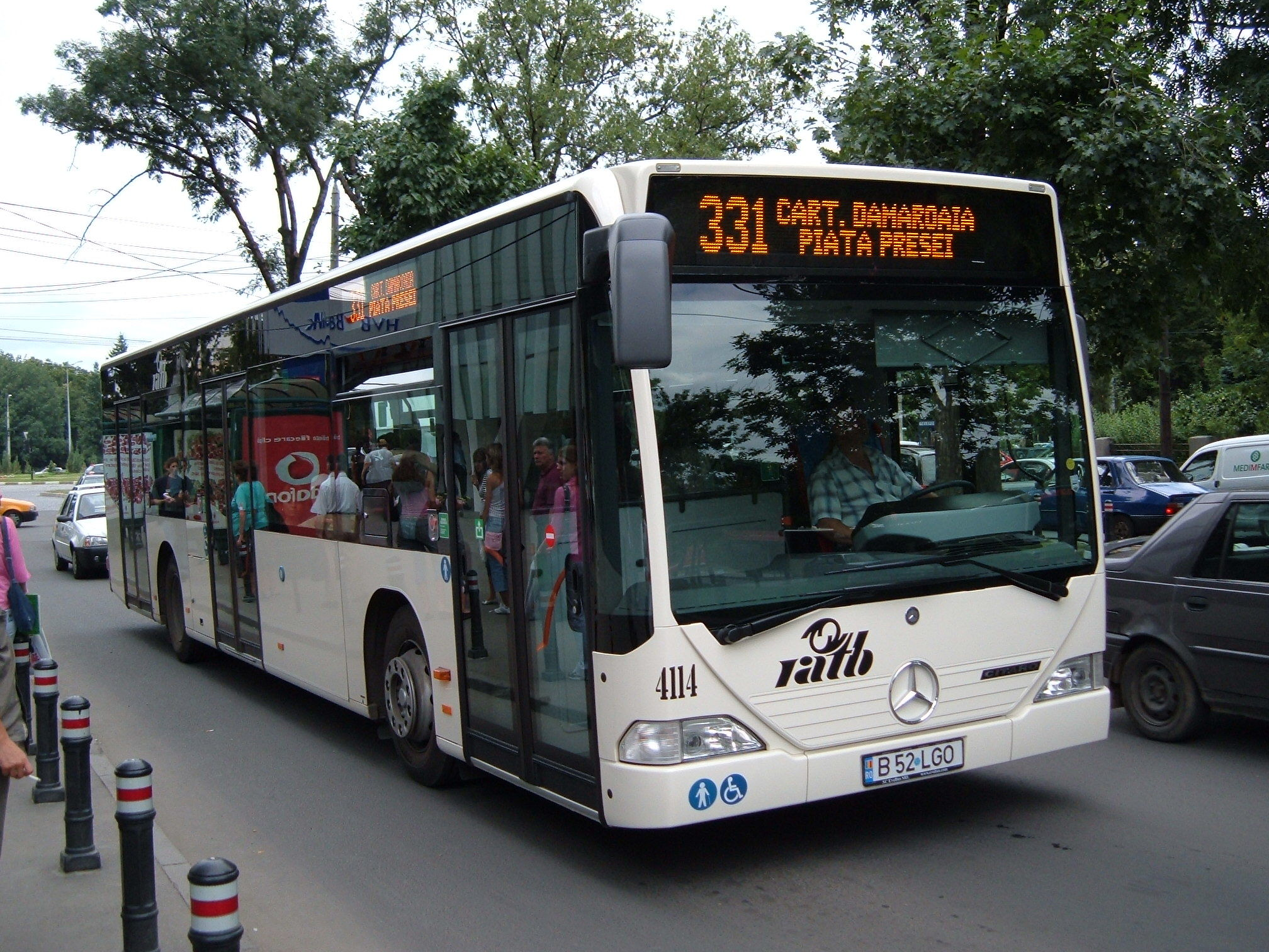 City bus in Bucharest, Romania (Mercedes Citaro type)